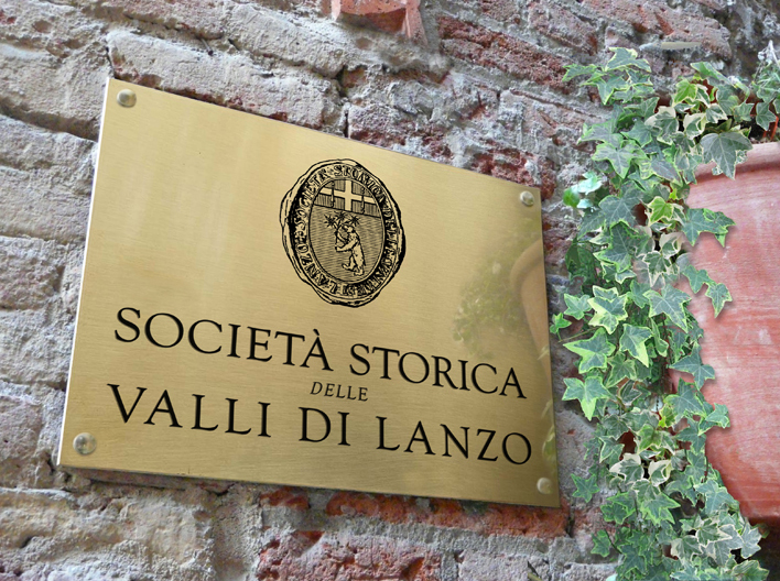 Plaque of the Società Storica delle Valli di Lanzo on the Aimone of Challant Tower in Lanzo Torinese